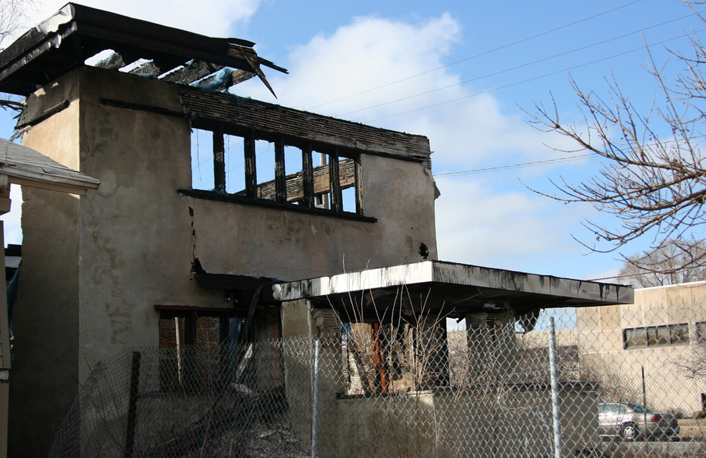 East face of the Wynant House (1916) in Gary, Indiana almost three years after the 2006 fire.